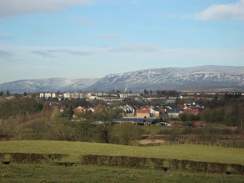 View from West Blairlinn Farm West Blairlinn Farm is approximately 350 feet above sea level therefore allows for some nice views especially to the north. Here we are looking NW towards Condorrat and the hills beyond.